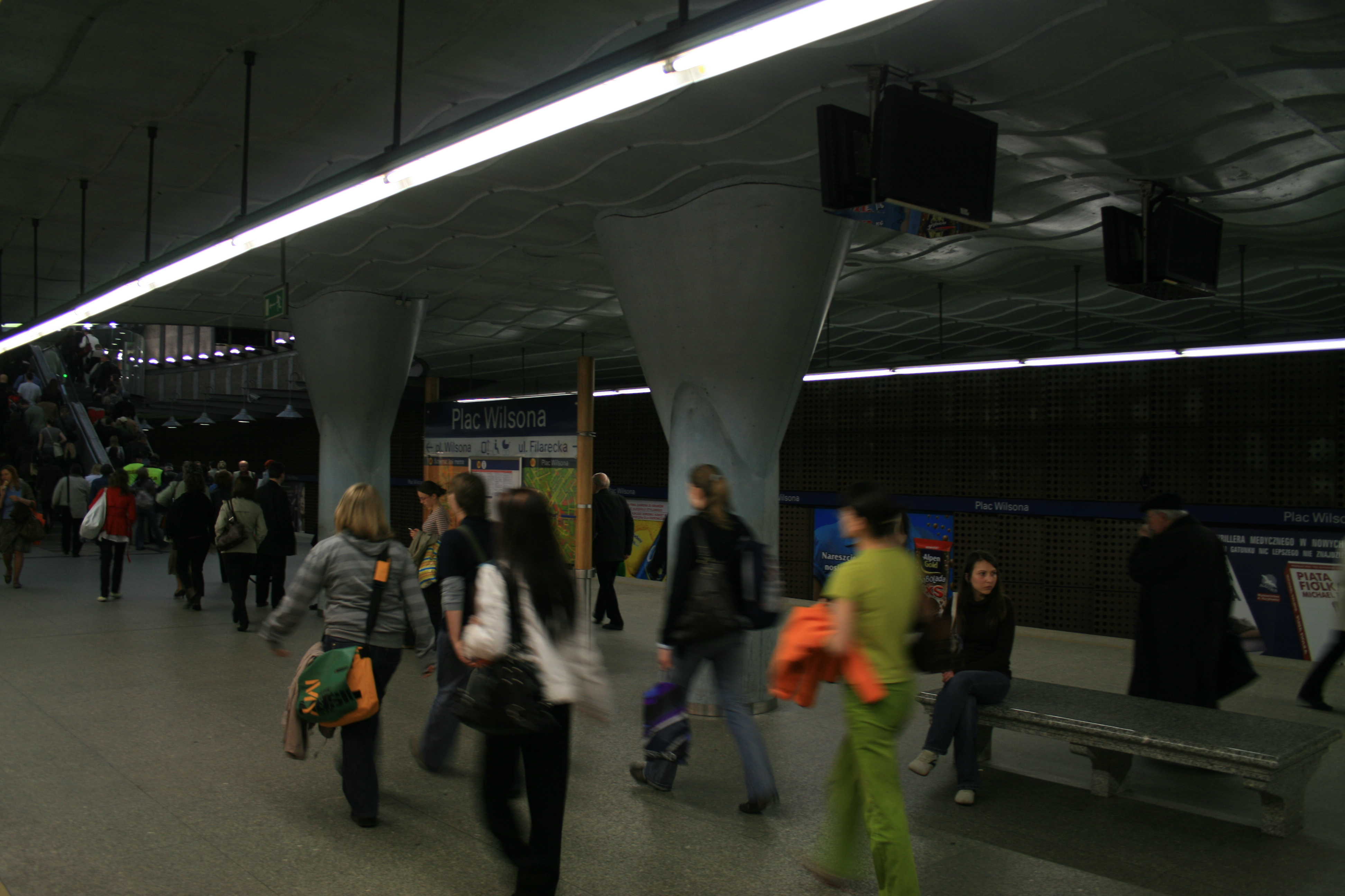 View on A-18 Plac Wilsona platform.